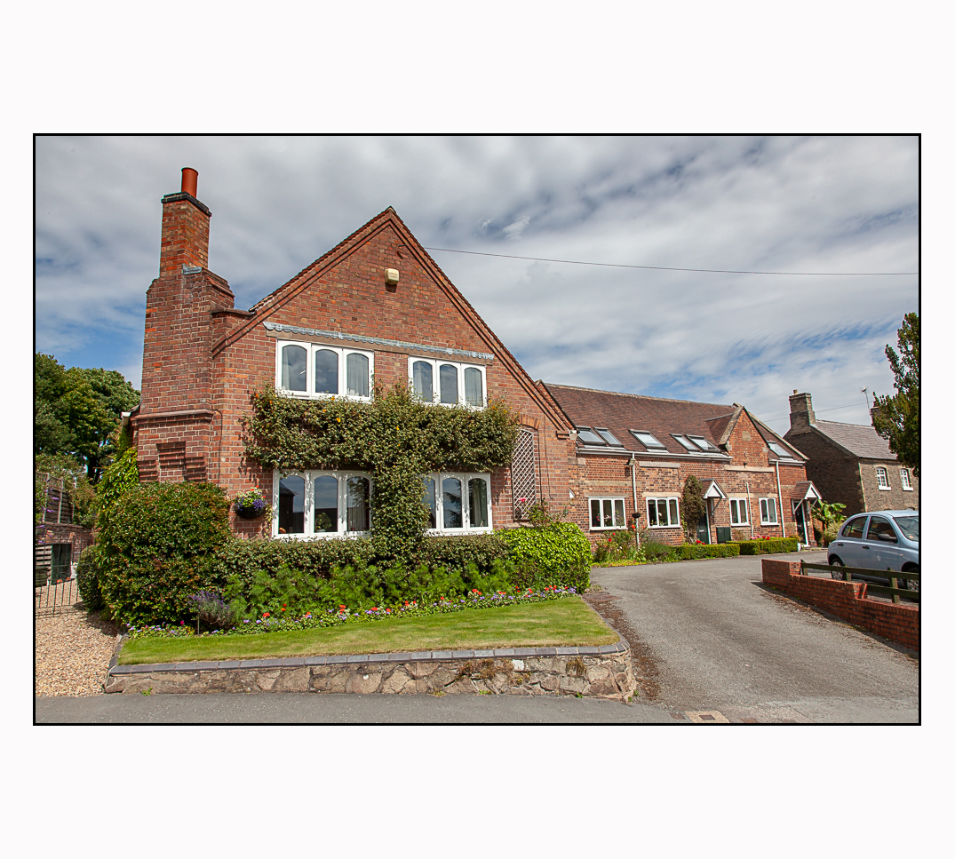 The National School, Markfield - now a domestic dwelling